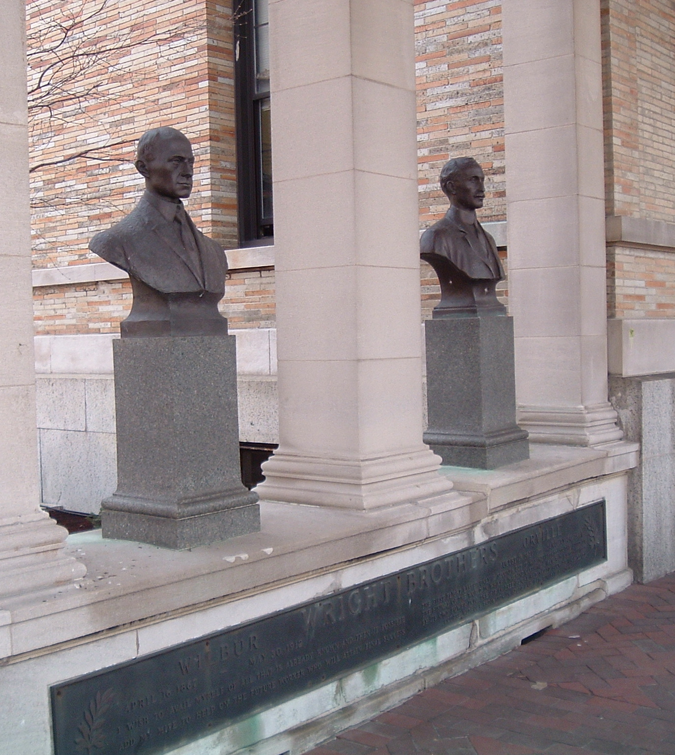 The twin busts of the Wright brothers from the Hall of Fame for Great Americans